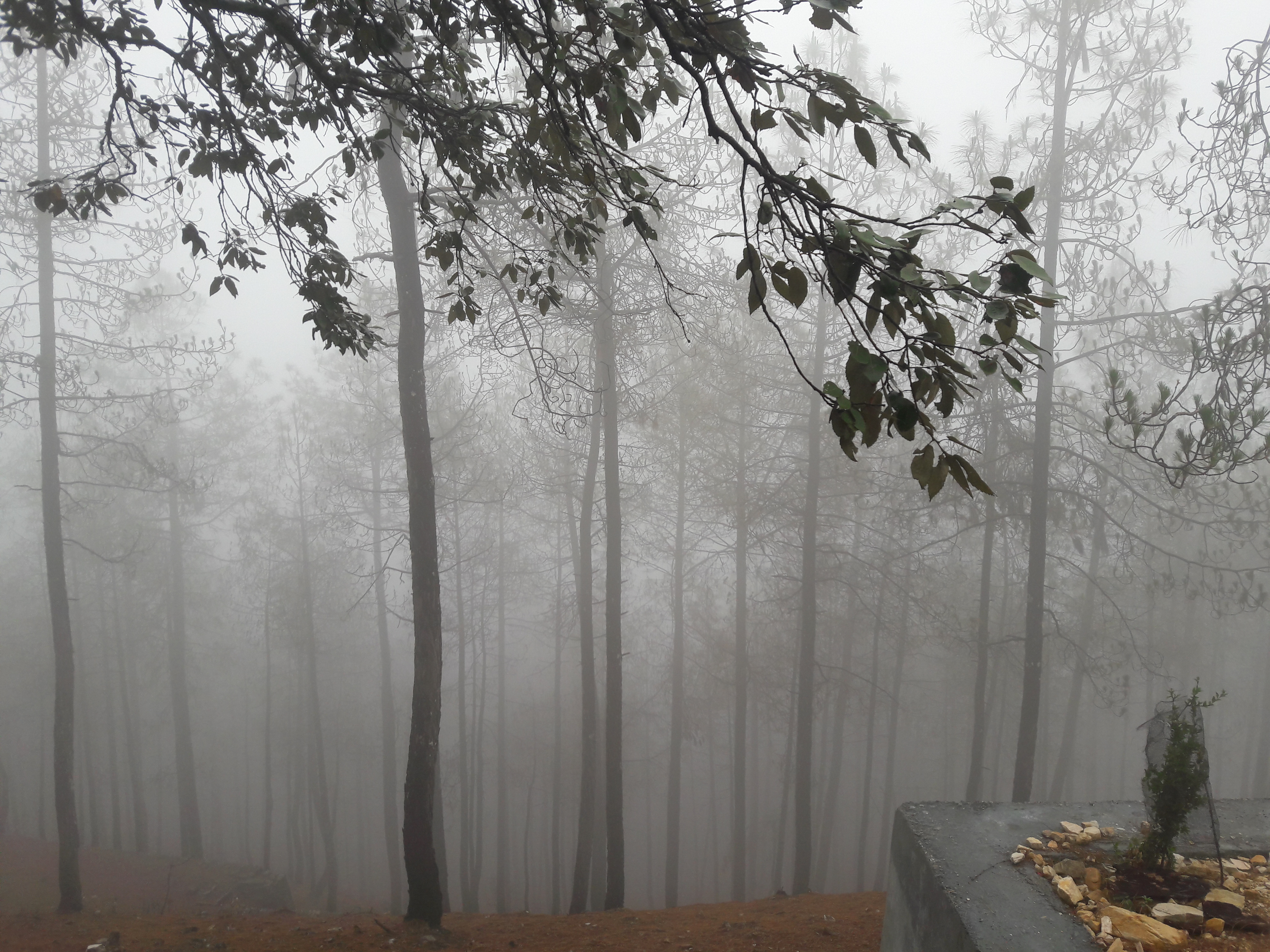 view from Dhaulinag Temple